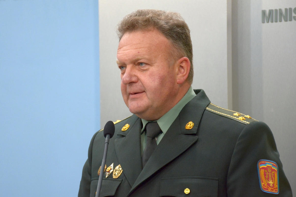 начальник Військово-музичного управління Збройних Сил України — Головний військовий диригент полковник Володимир Дашковський